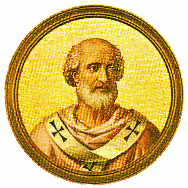 Portrait of Pope Sabinian un the Basilica of Saint Paul Outside the Walls, Rome